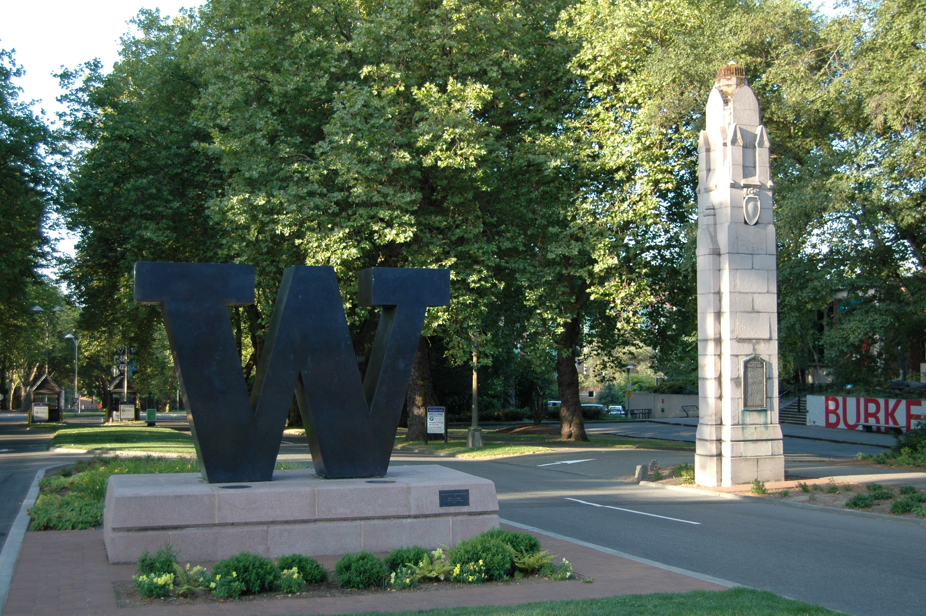 Entrance to the University of Washington with the large W sign.